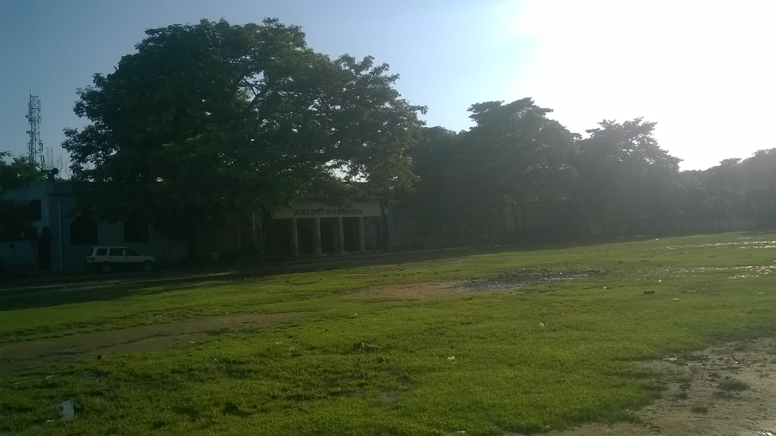 Azad Inter College Bahraich